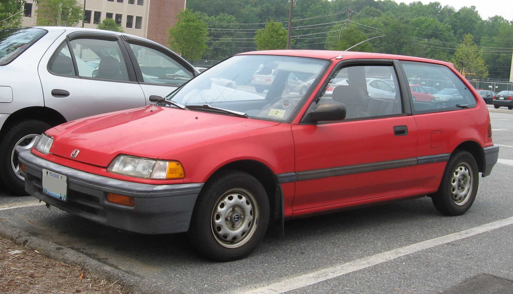 1988-1989 Honda Civic STD Hatchback photographed in USA.